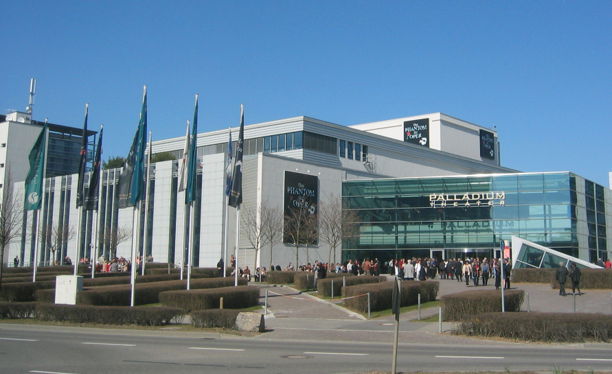 Stuttgart, Germany: SI Centrum - Palladium Theater